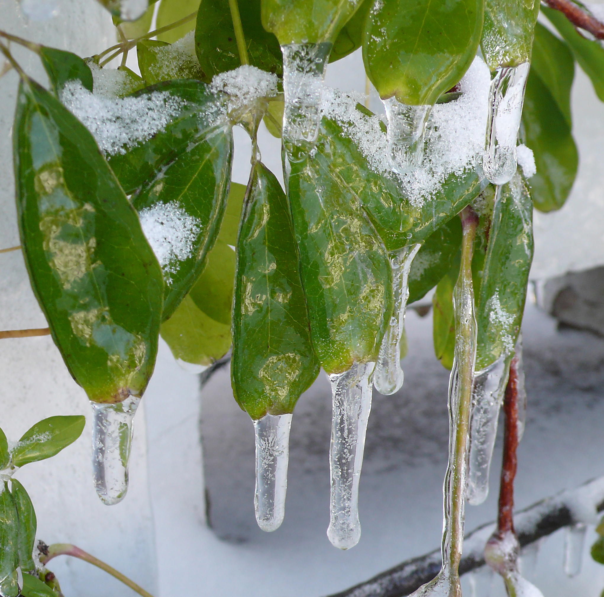 Vine leaves (Chocolate Vine, Akebia quinata) after freezing rain